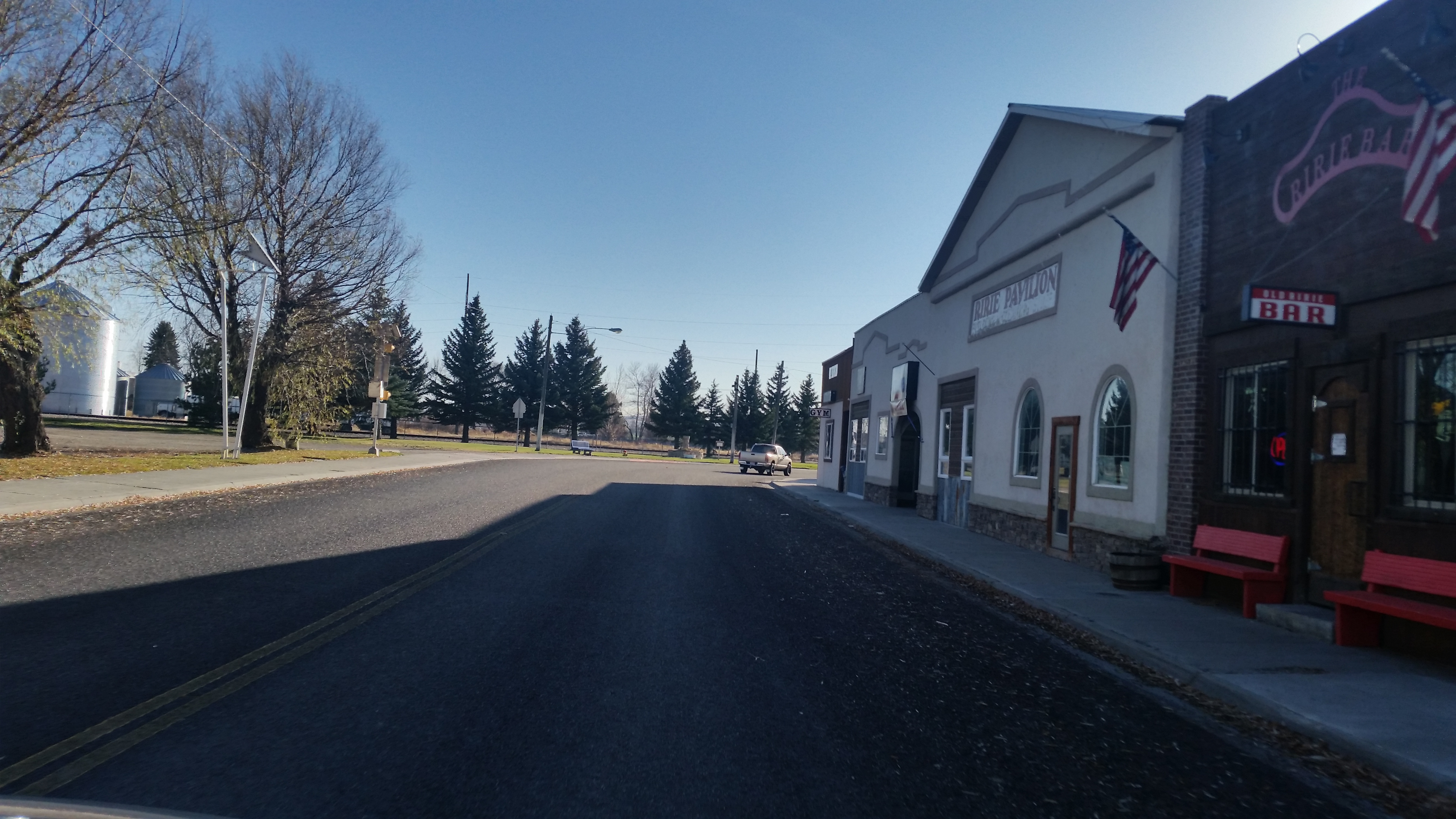 Smith st and Main St in downtown Ririe, Idaho. Nov 2016